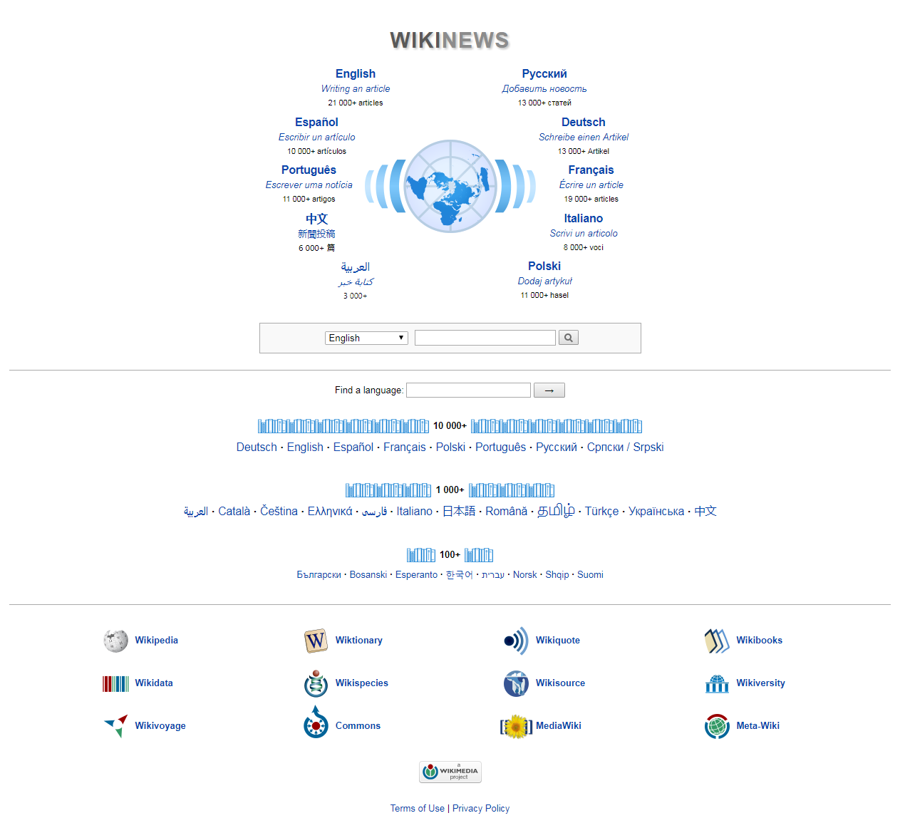 Wikinews home page screenshot 2017-08-16